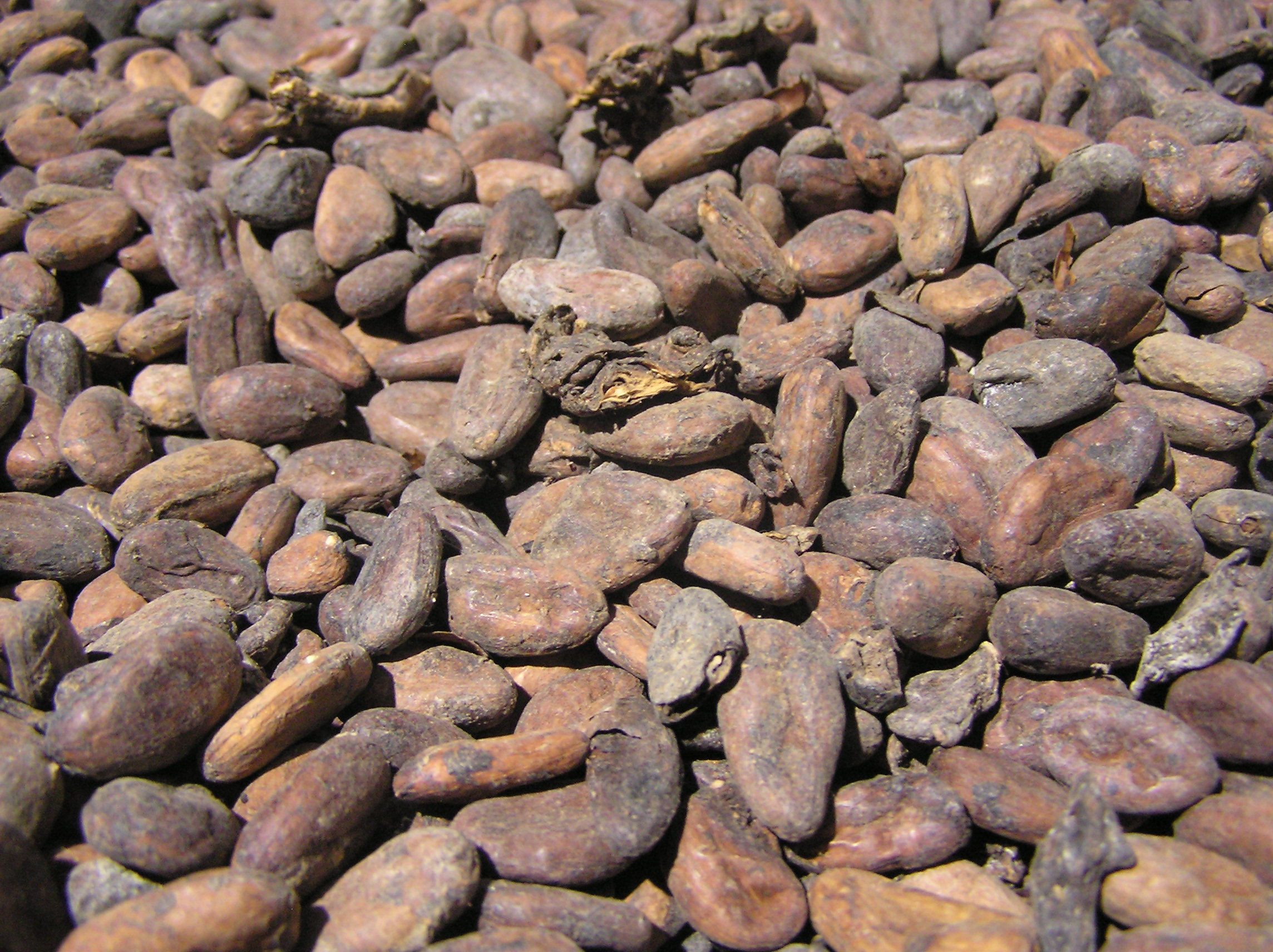 cacao seed, drying before toastcacao